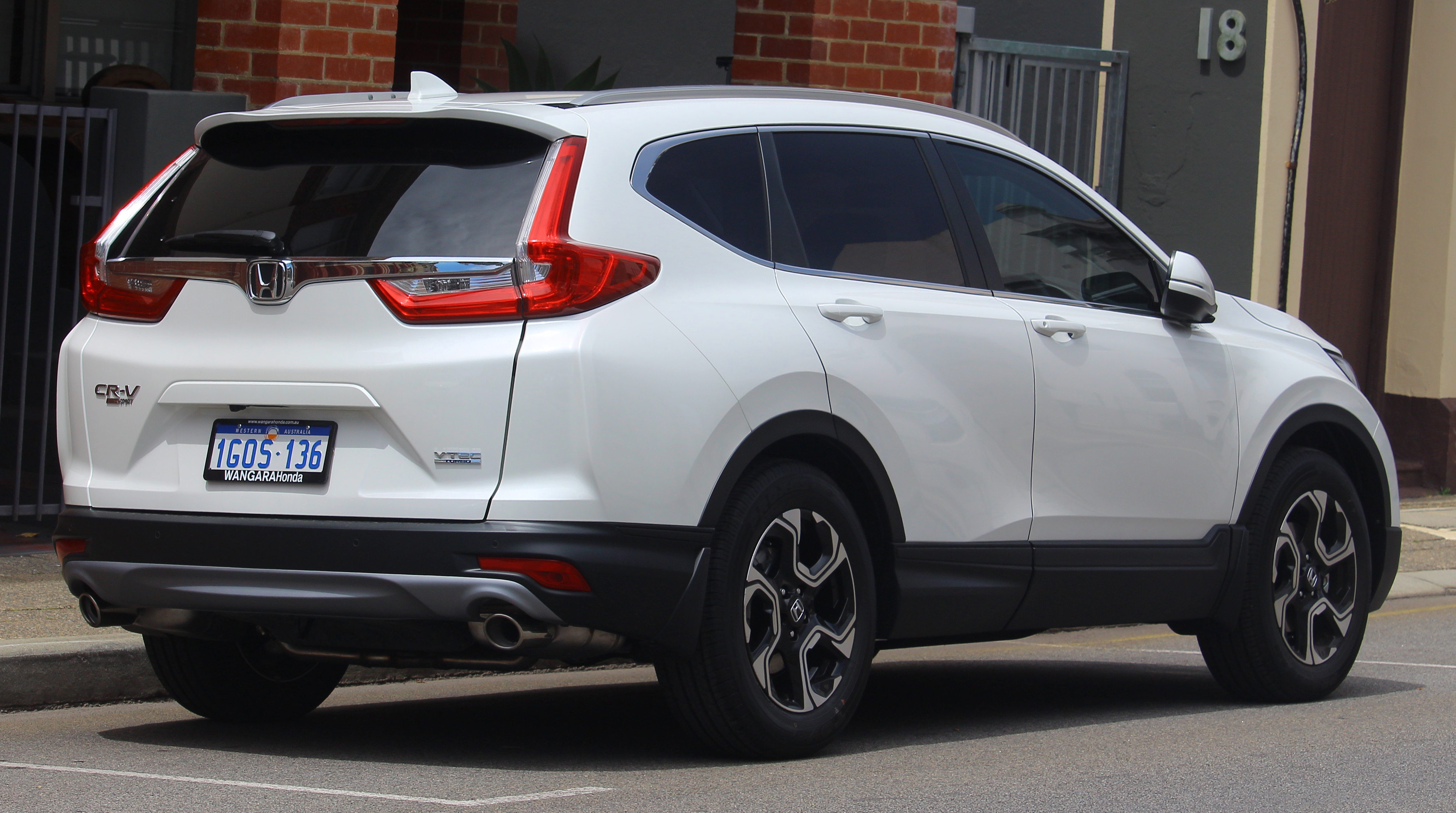 2018 Honda CR-V (RW MY18) +Sport 2WD wagon. Photographed in Fremantle, Western Australia, Australia.